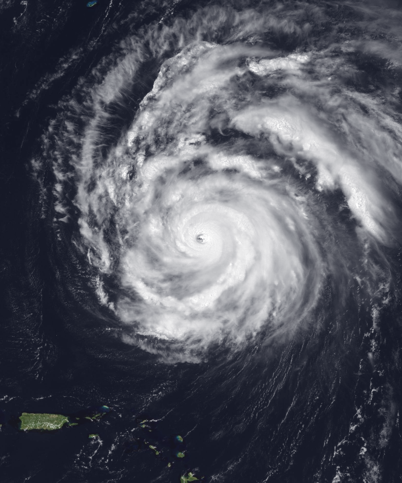 Hurricane Felix at peak intensity north of the Leeward Islands on August 12, 1995